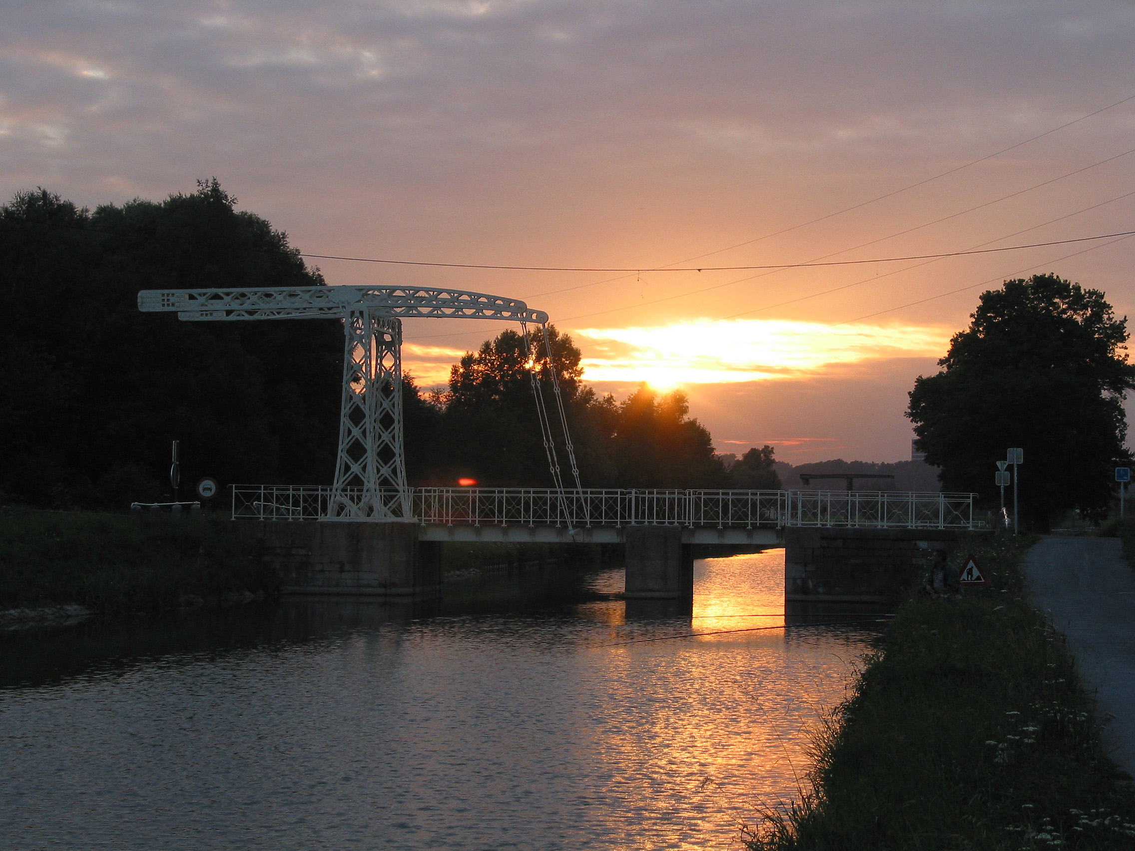 Ville-sur-Haine (Belgium), sunset on the bascule bridges of the «Canal du Centre».